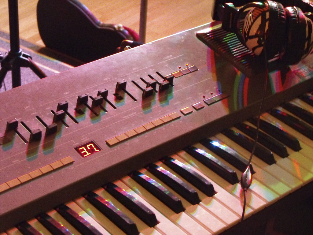 I love this thing, wish it was mine, twas on loan from a friend of mine :D Roland HS-60